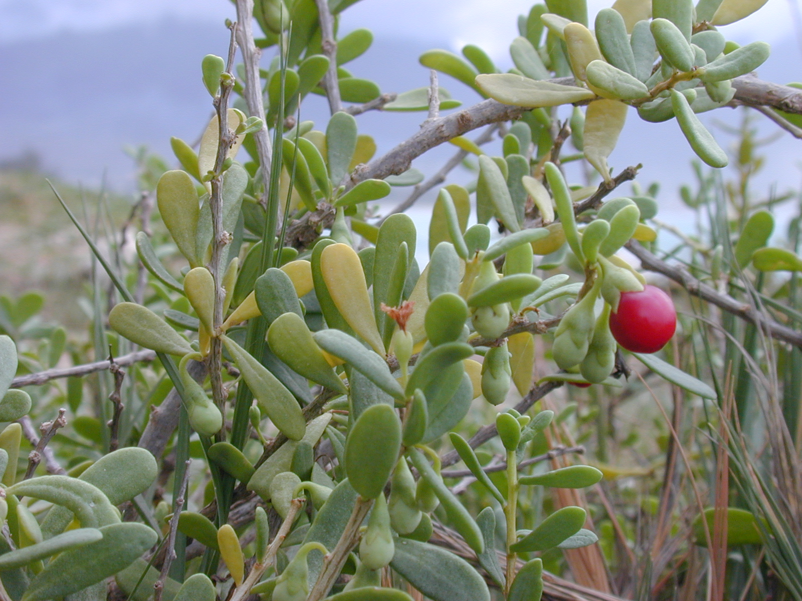 Lycium sandwicense (leaves and fruit). Location: Maui, Kanaha Beach